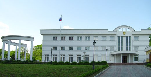 Consulate-General of Russia in Odessa